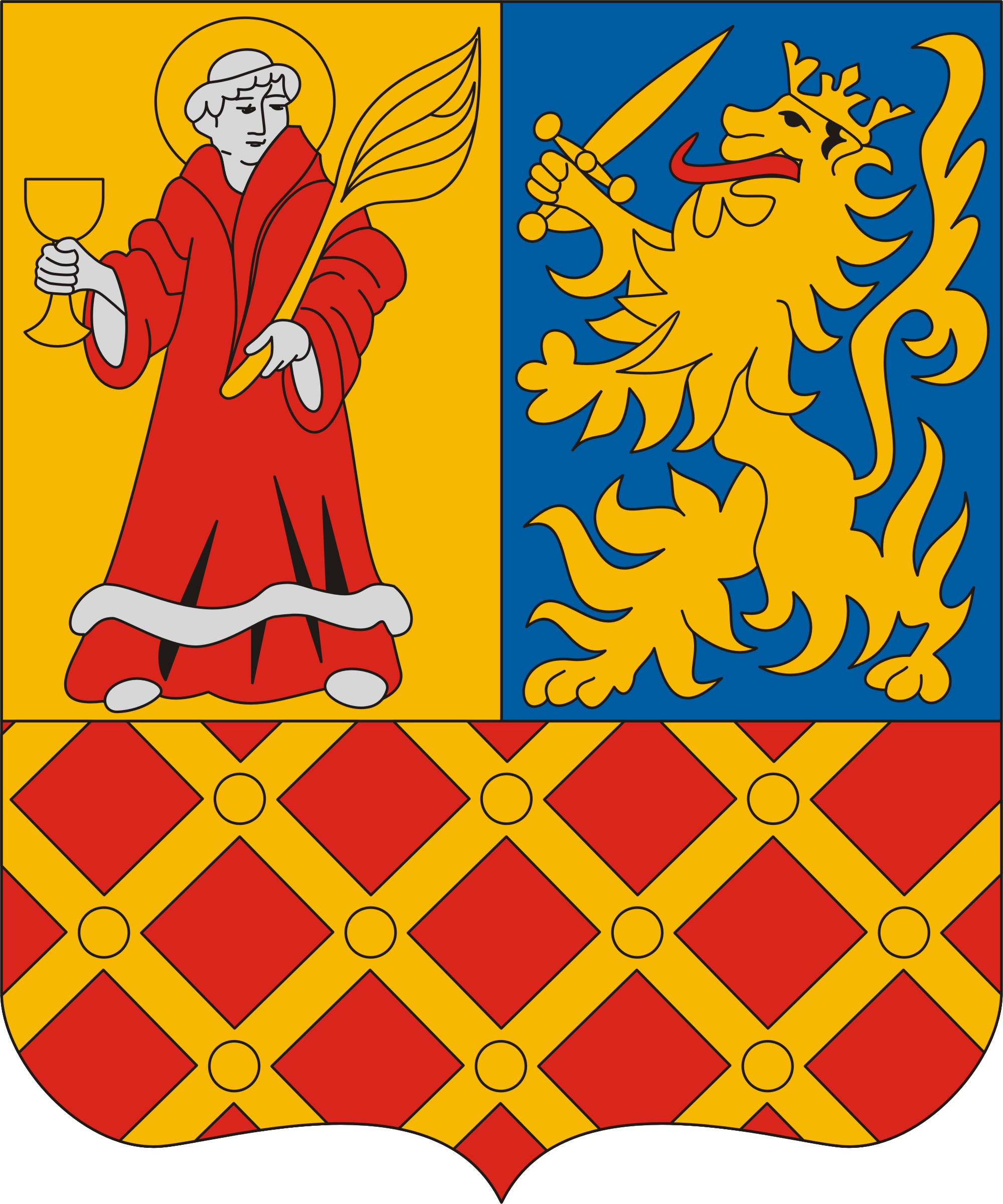 Coat of arms of Nyárlőrinc, Hungary